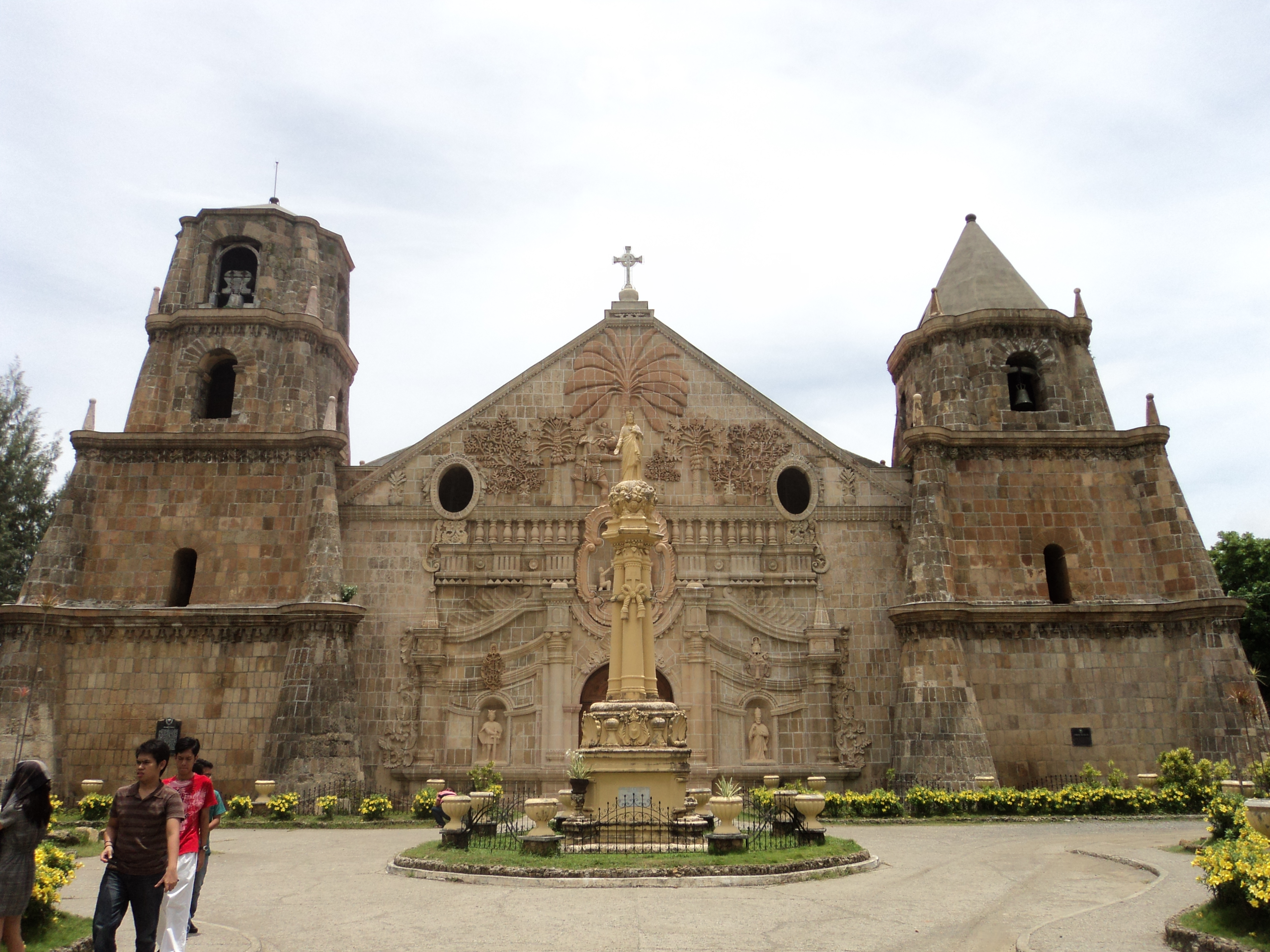 The Miag-ao Church in Miag-ao, Iloilo